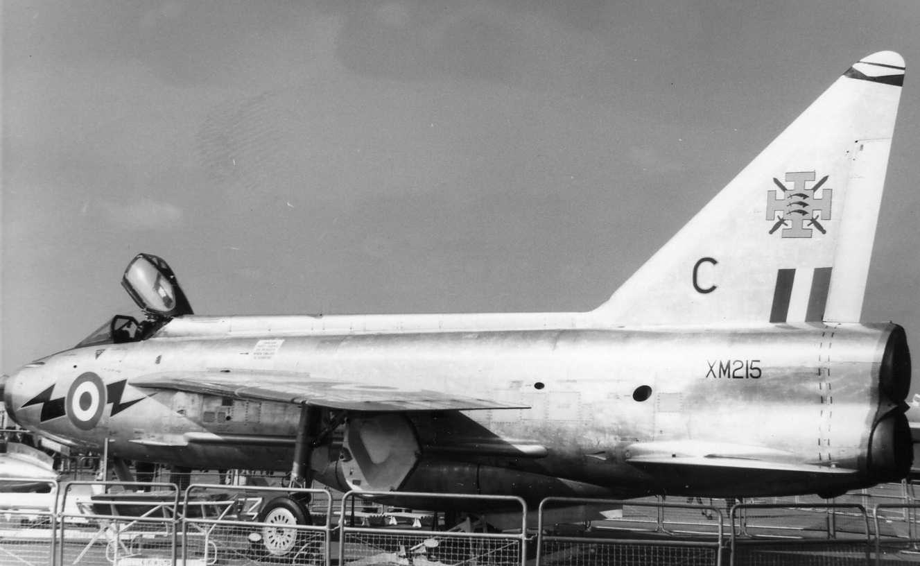 Lightning F.1 at the 1961 SBAC show, Farnborough